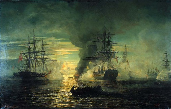 Naval Battle in the Algoa Bay, 20-21 September 1799. French frigate Preneuse against HMS Camel and Surprise (a privateer).label QS:Lde,"Seeschlacht in der Alagoa Bucht, Südafrika" label QS:Len,"Naval Battle in the Algoa Bay, 20-21 September 1799. French frigate Preneuse against HMS Camel and Surprise (a privateer)." label QS:Lfr,"Bataille Navale de la Baie d'Alagoa" Surprise in this picture was a privateer sailing in African waters, not the RN vessel "HMS Surprise (1796)" sailing in the Caribbean.